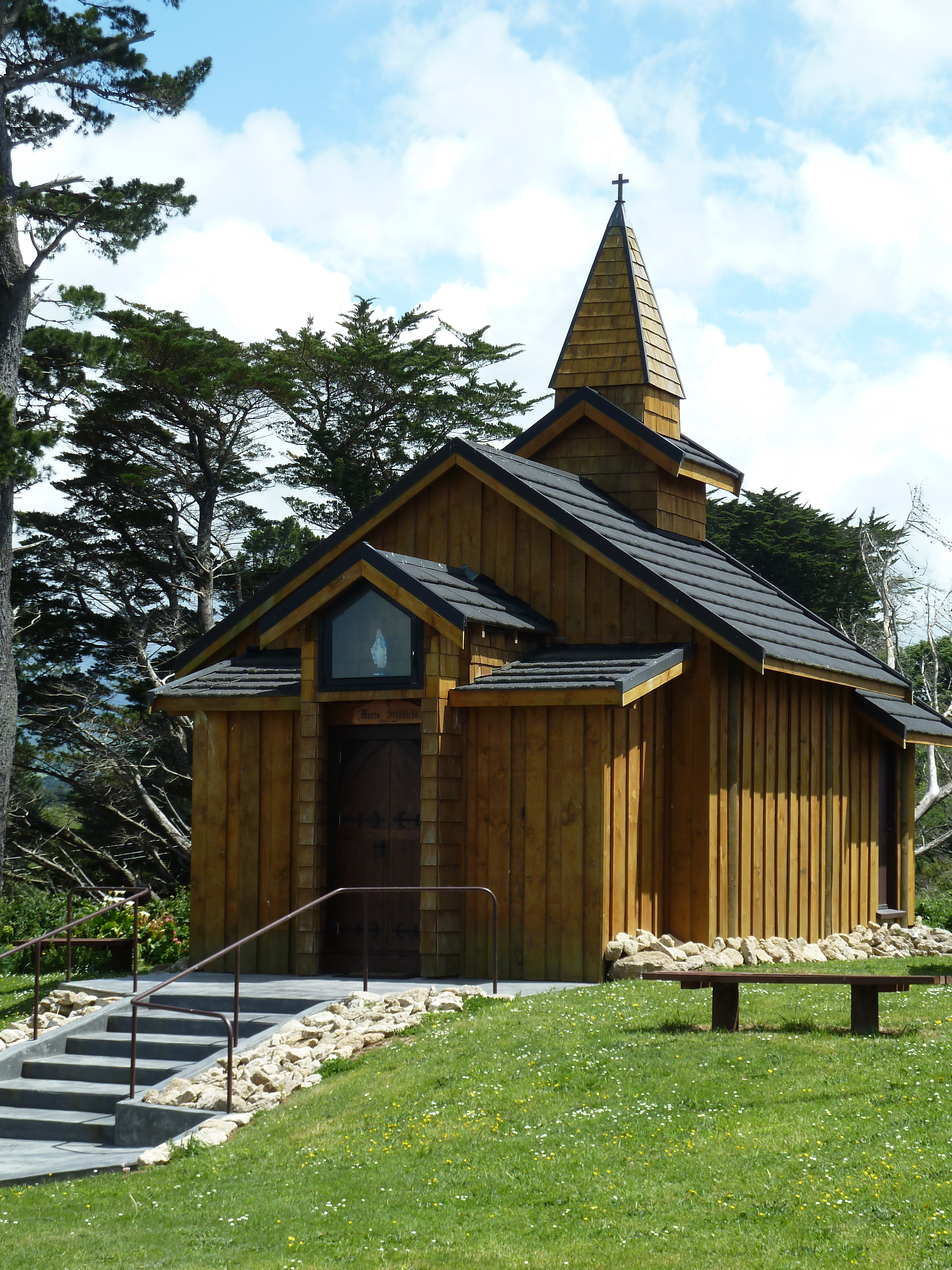 Upper Norsewood, Coronation Street. The Stave Church in Johanna's World.